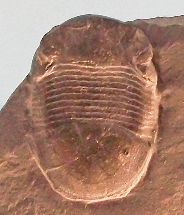 Crop of file in filename